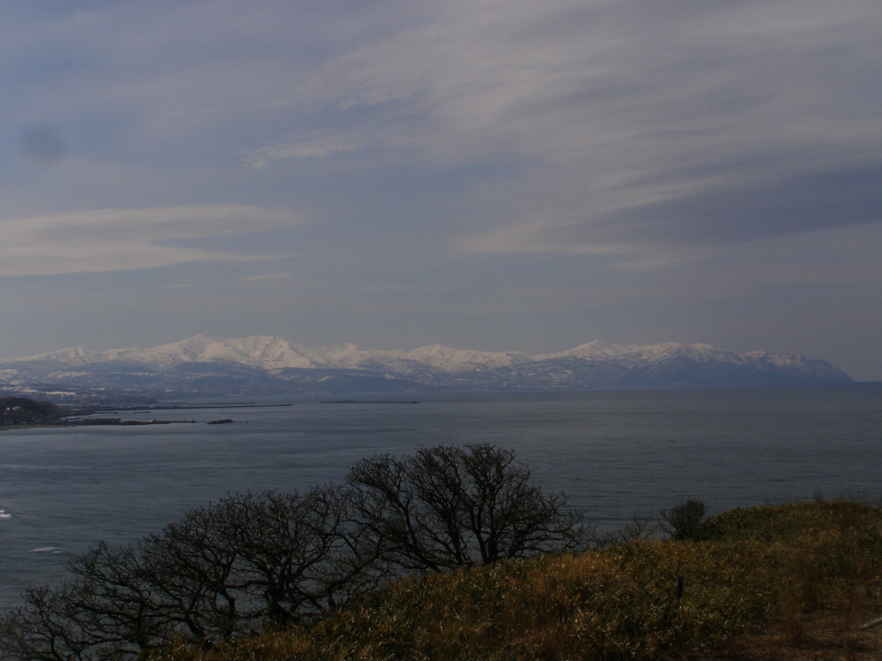 Mashike Mountains as seen from the NNE in Hokkaido, Japan. Mount Shokanbetsu (Shokanbetsudake) on the left. Taken from Obira Town.